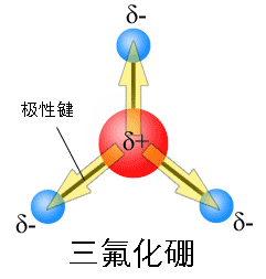 Diagram showing the net effect of polar bonds within boron trifluoride. Originally created in English by User:Serephine. Translated into Chinese by User:Burea.